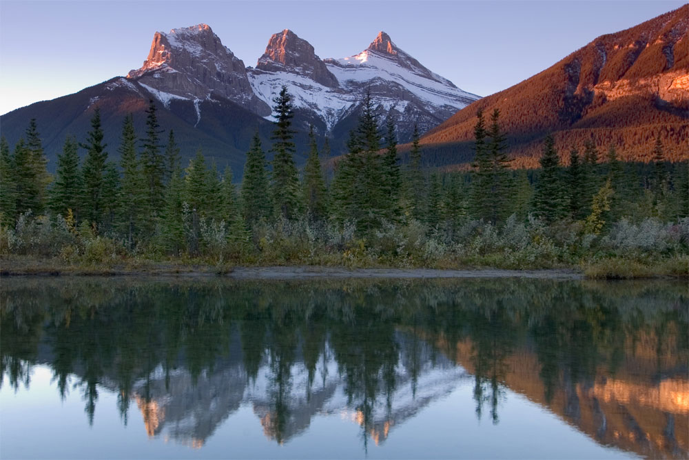 A dawn photograph of The Three Sisters reflecting in the Bow River taken just east of Canmore, Alberta. Made with a Nikon D70 and 12-24 f4 lens and a 3 stop hard grad ND filter.